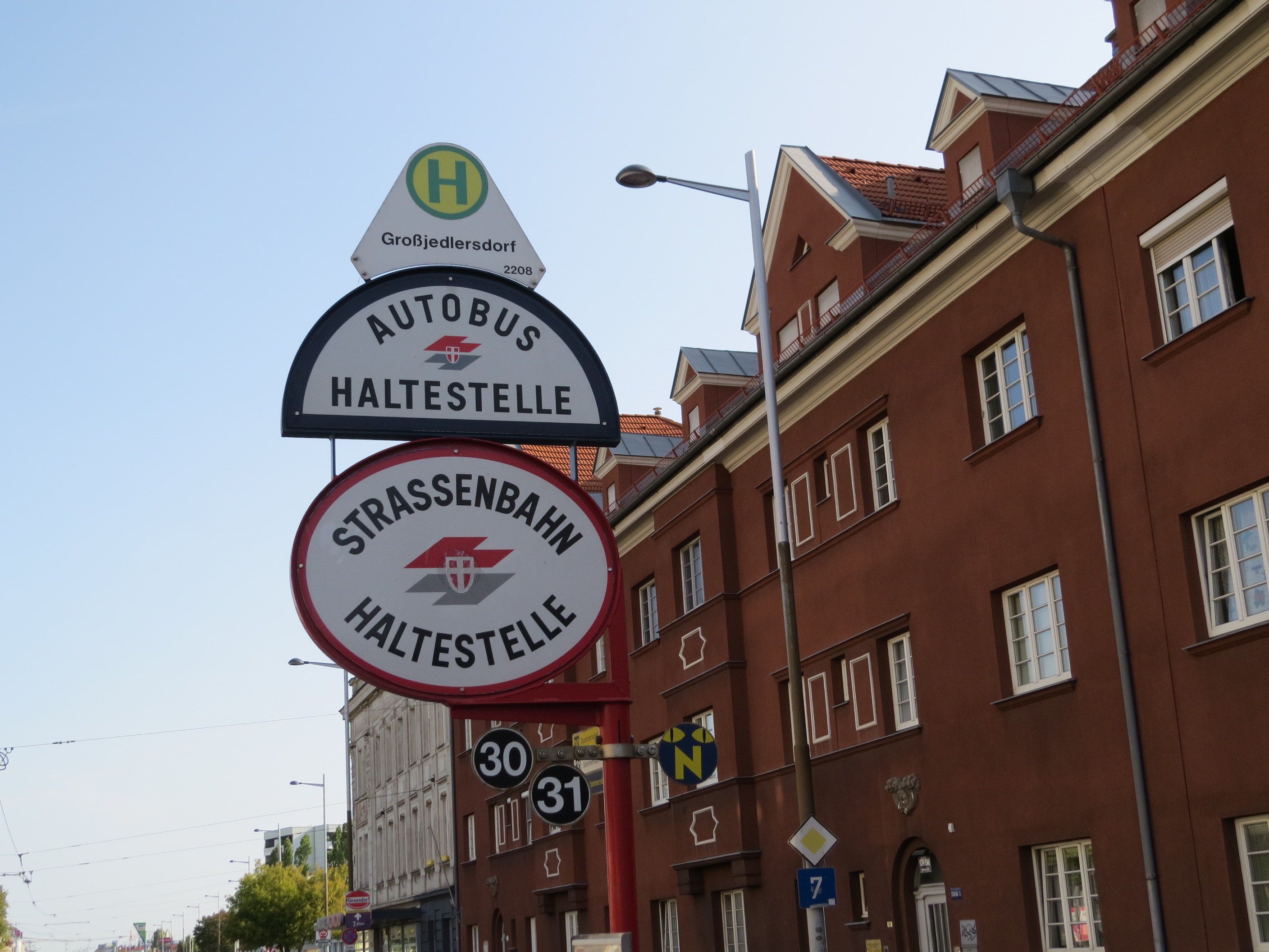 House at Brünner Straße 130-134